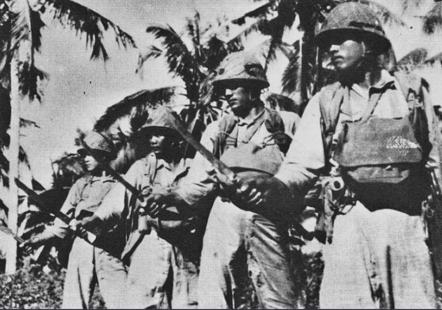 Takasago Volunteer Corps